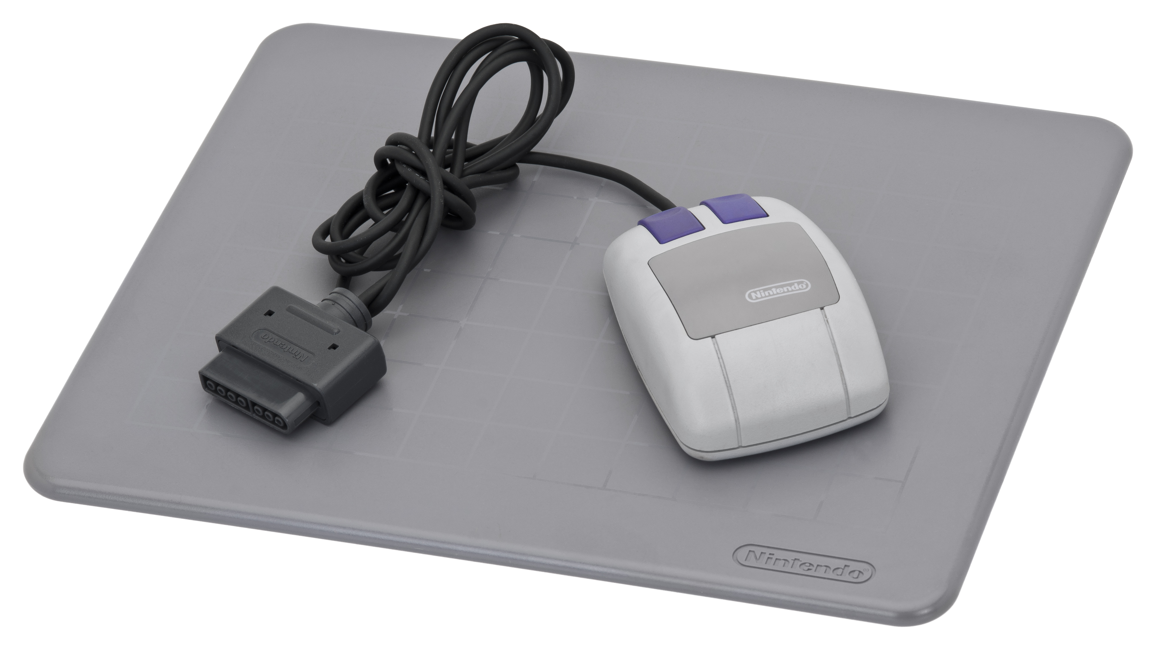 A North American Super Nintendo mouse and mouse pad, which came packed in with Super Mario Paint.